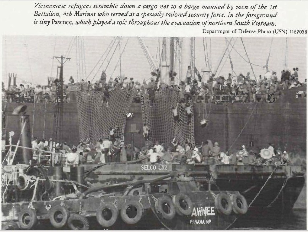 WYSWYG